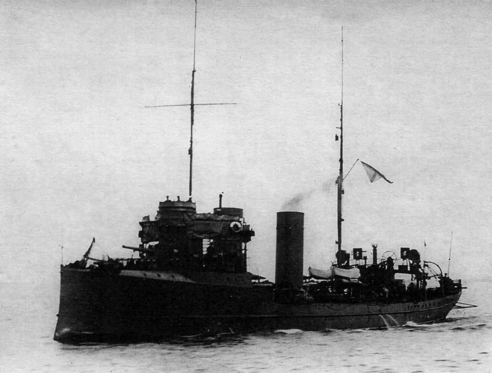 The Imperial Russian destroyer General Kondratenko.